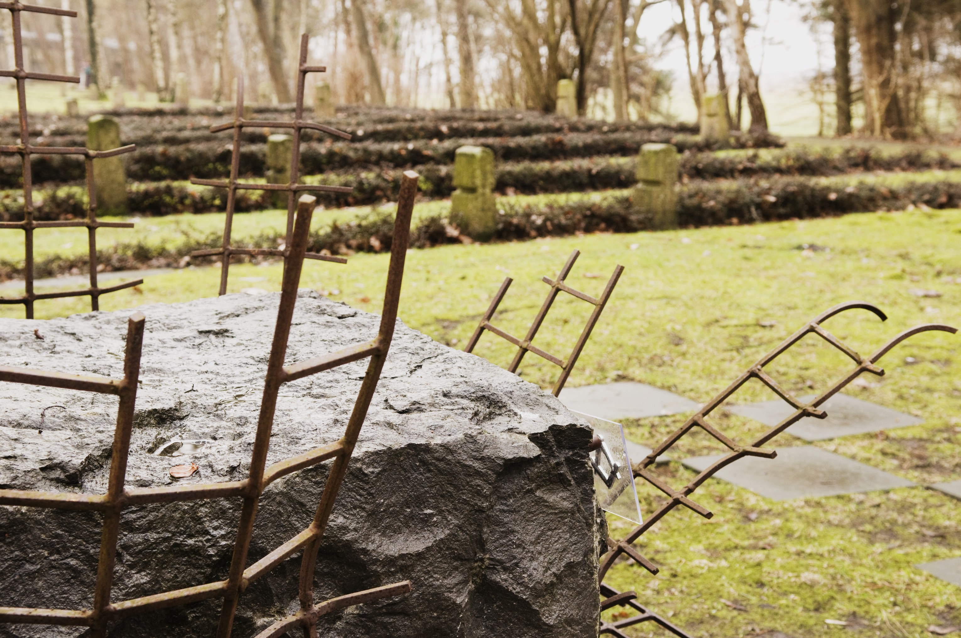 Monument located on the war cemetery Esterwegen (Emsland) to remember the masonic lodge Liberté Cherie which was formed in Emslandlager VII Esterwegen during WW II. Detail view with graves on background.